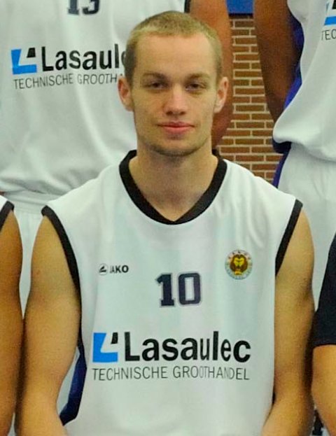 Dutch professional basketball player Valentijn Lietmeijer in 2011 in his Aris Leeuwarden jersey.